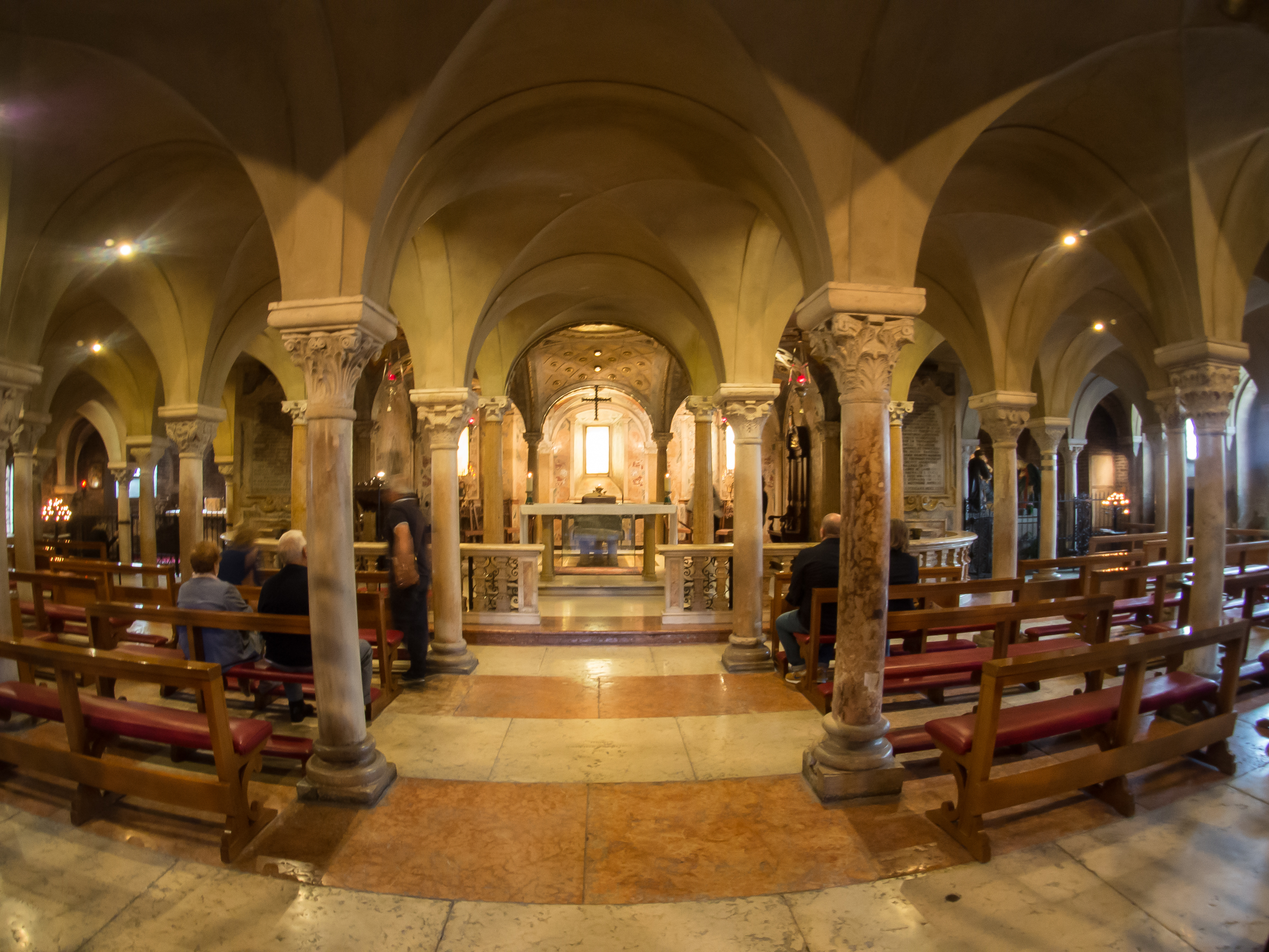 Modena Cathedral inside